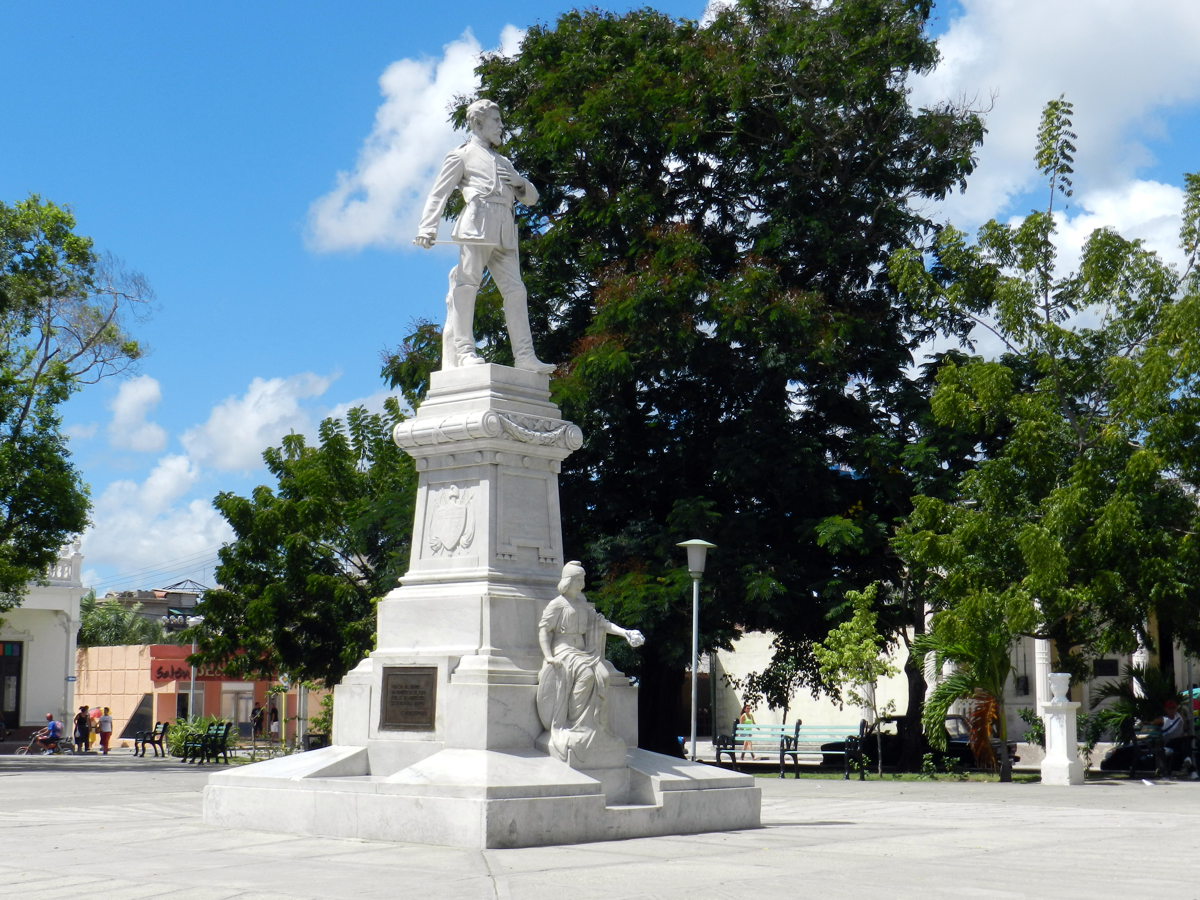 Statue of Julio Grave de Peralta, Las Flores Park, Holguín, Cuba